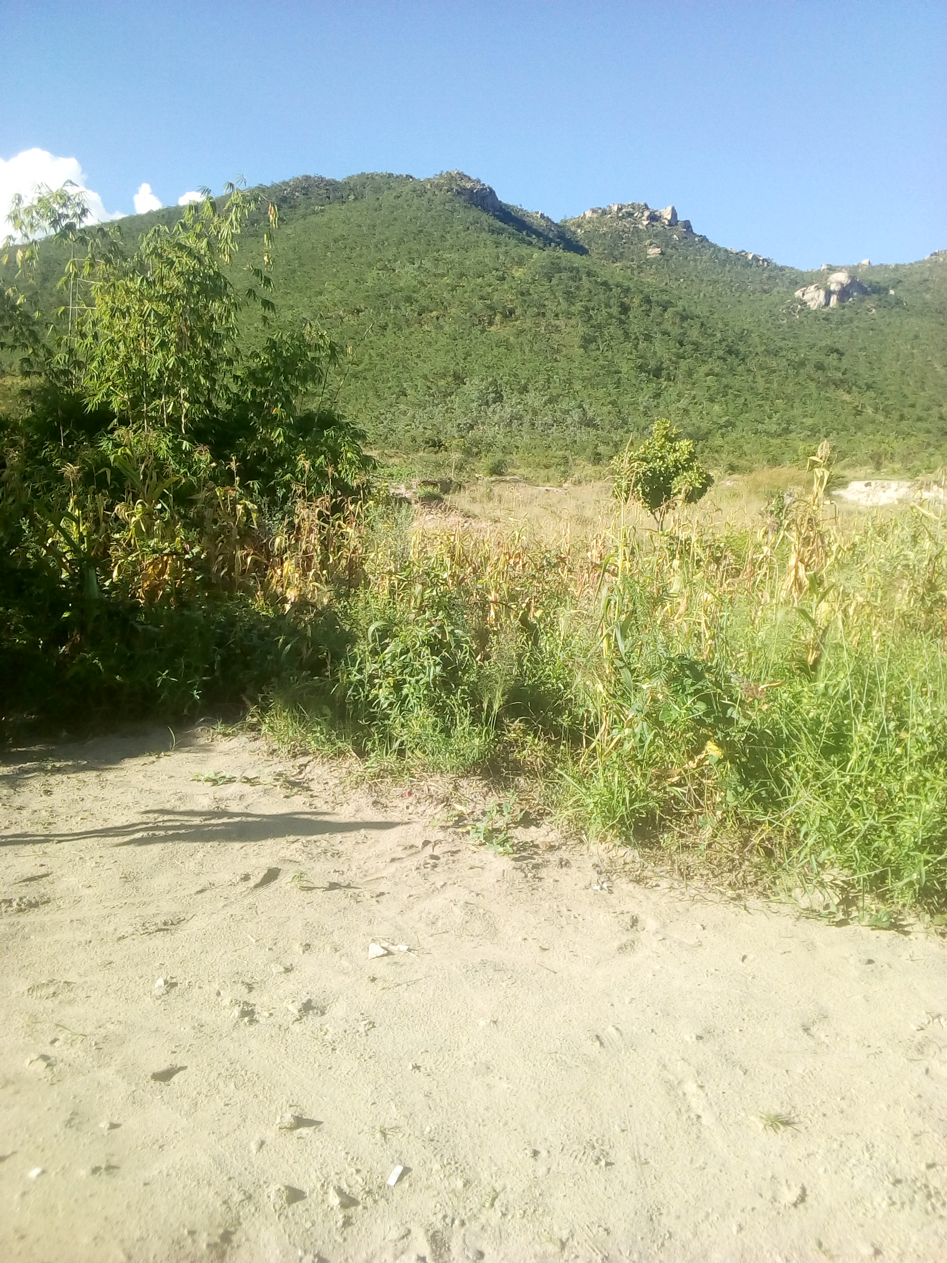 This is among of the block mountains that are found in Iringa region in Tanzania Kiswahili: Mlima tofali unaopatikana itamba Iringa Tanzania